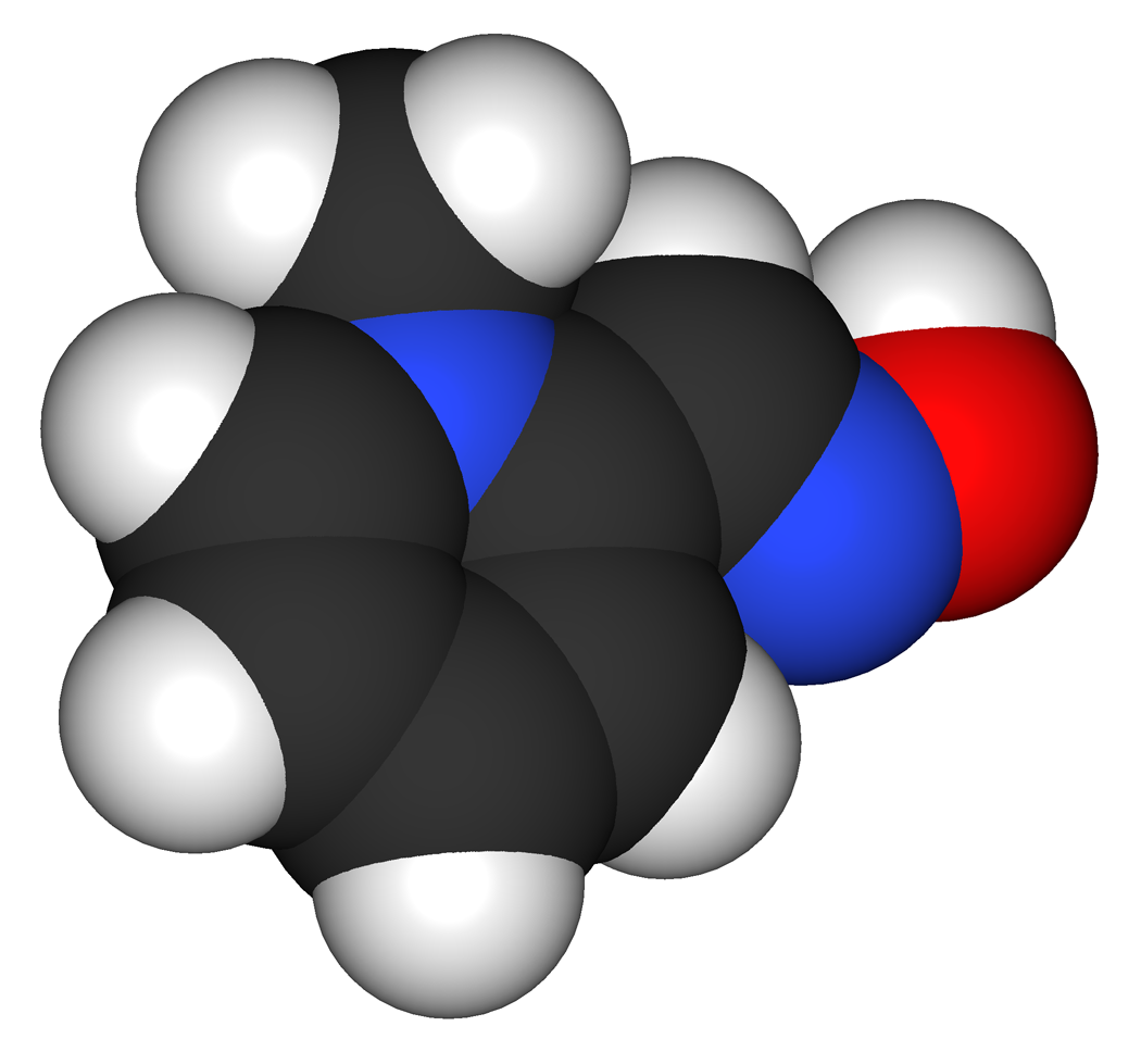 Space-filling model of praloxidime